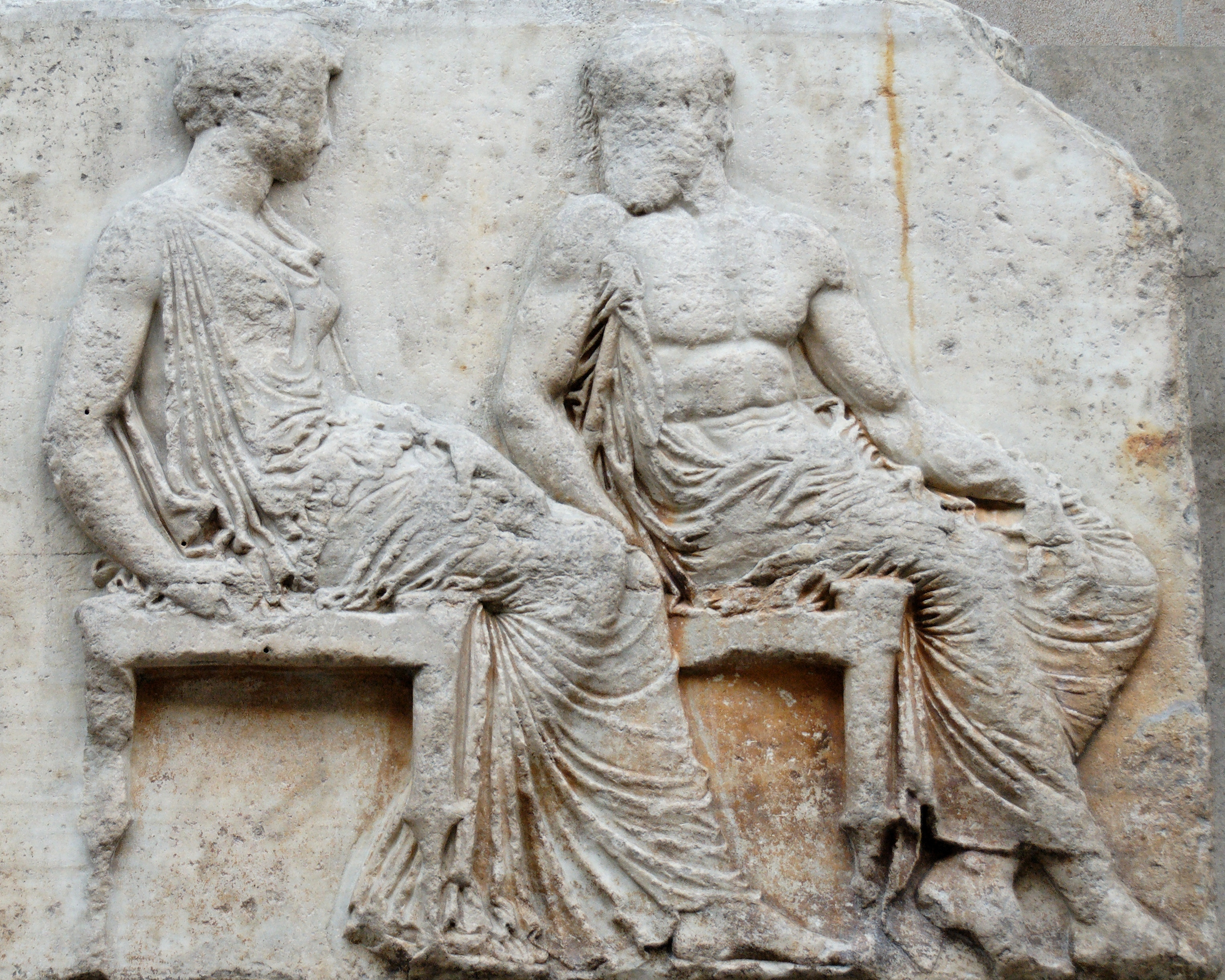 Athena holding a spear (now missing) watches the procession of the Great Panathenaia; next to here, the lame god Hephaistos leans on a crutch. Block V (fig. 36-37) from the East frieze of the Parthenon, ca. 447–433 BC.